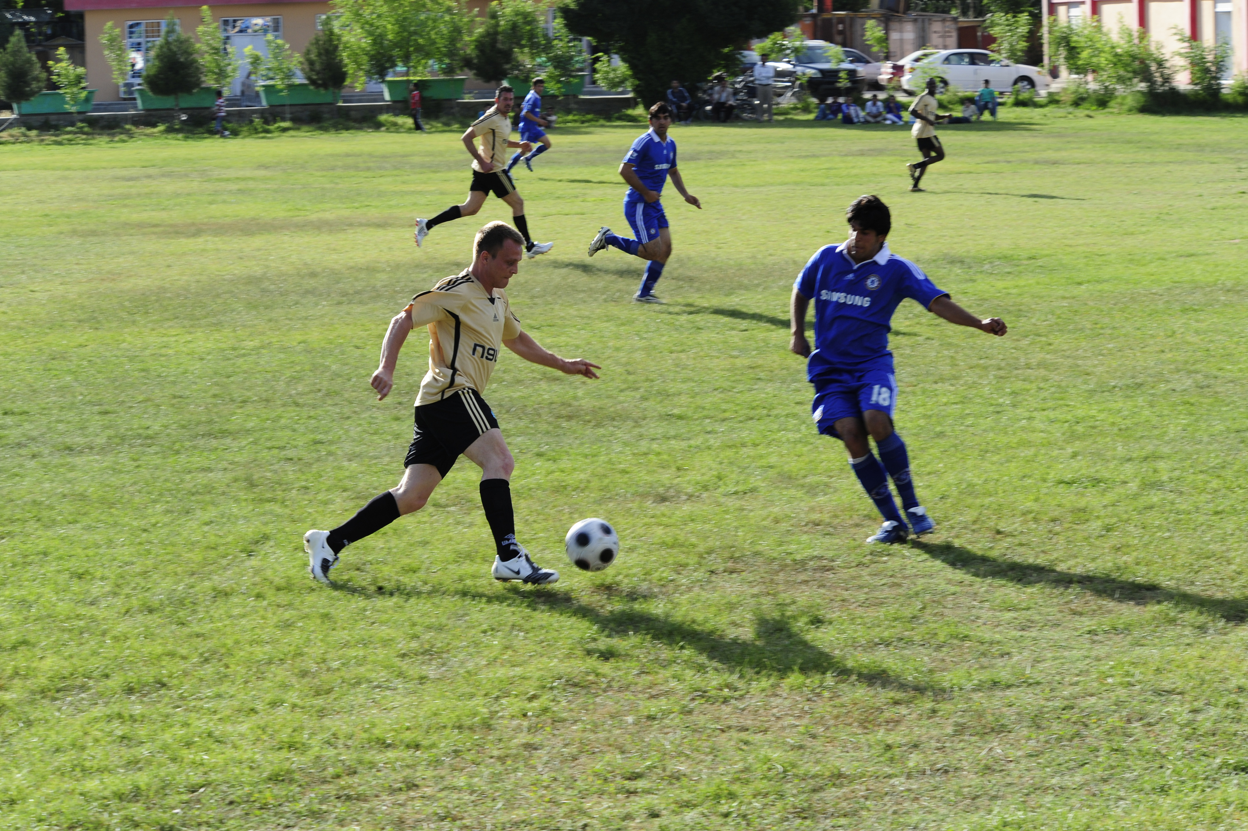 KABUL, Afghanistan--Members form ISAF Headquarters and the ANA go for the ball during a soccer match.